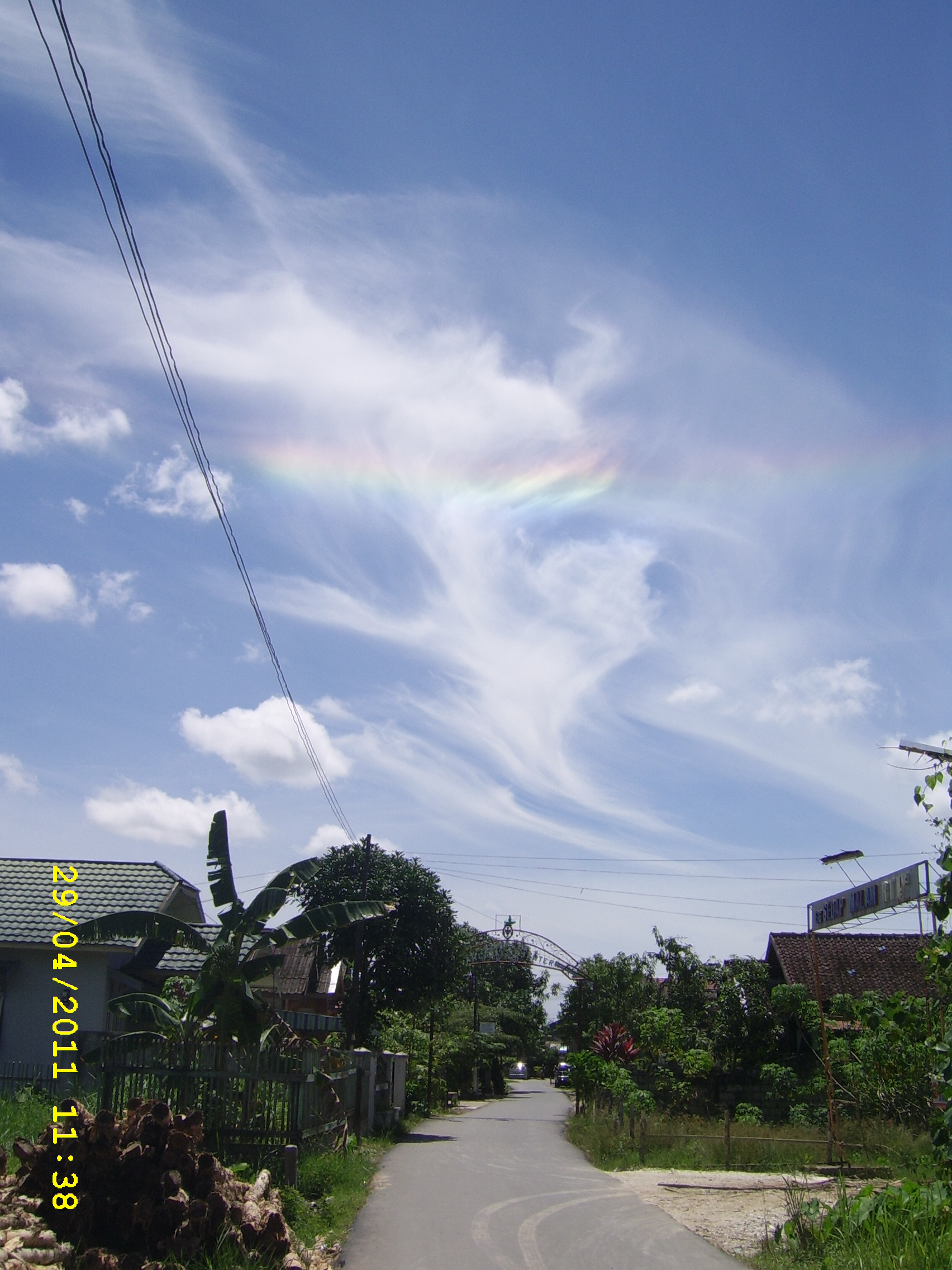 Circumhorizontal arc, photographed in Banjarmasin, Indonesia at April 29 2011, by Linus Tua and Eliza Dee. You are free to use this picture, as long as credit is given to the author. Aadditional pictures available at